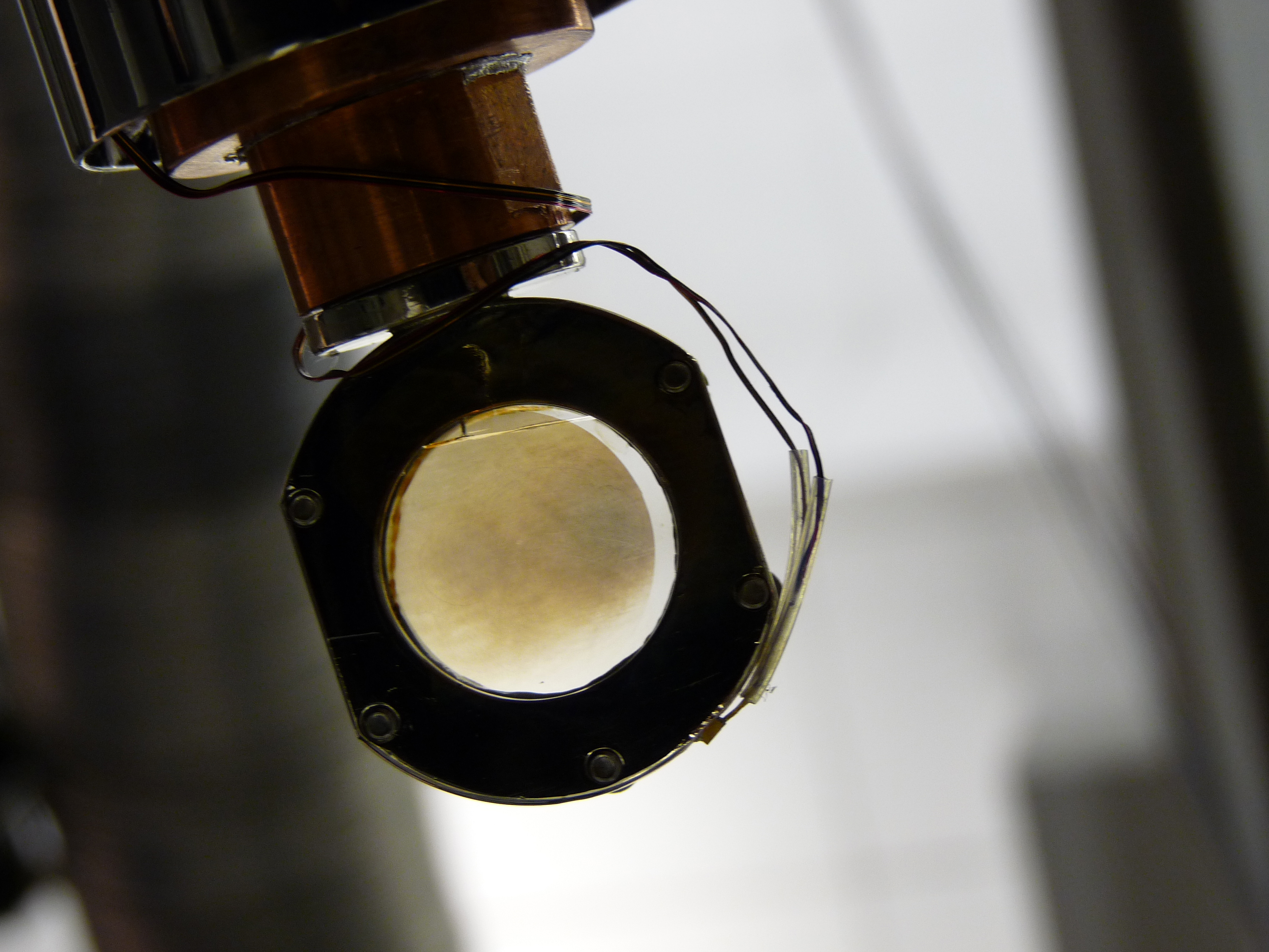 In a laboratory experiment at NASA's Jet Propulsion Laboratory, Pasadena, Calif., scientists simulating the atmosphere of Saturn's moon Titan have brewed up complex organic molecules that they think could eventually lead to the building blocks of life. In this picture, molecules of dicyanoacetylene are seen on a special film on a sapphire window. They are the result of exposing simple organic molecules known to exist at Titan with sun-like radiation on Aug. 4, 2010. The residue is among the smog-like airborne molecules with carbon-nitrogen-hydrogen bonds that the astronomer Carl Sagan called “tholins” that give orange-brown color to Titan. The experiment was conducted at JPL's Titan Organic Aerosol and Surface Chemistry laboratory.